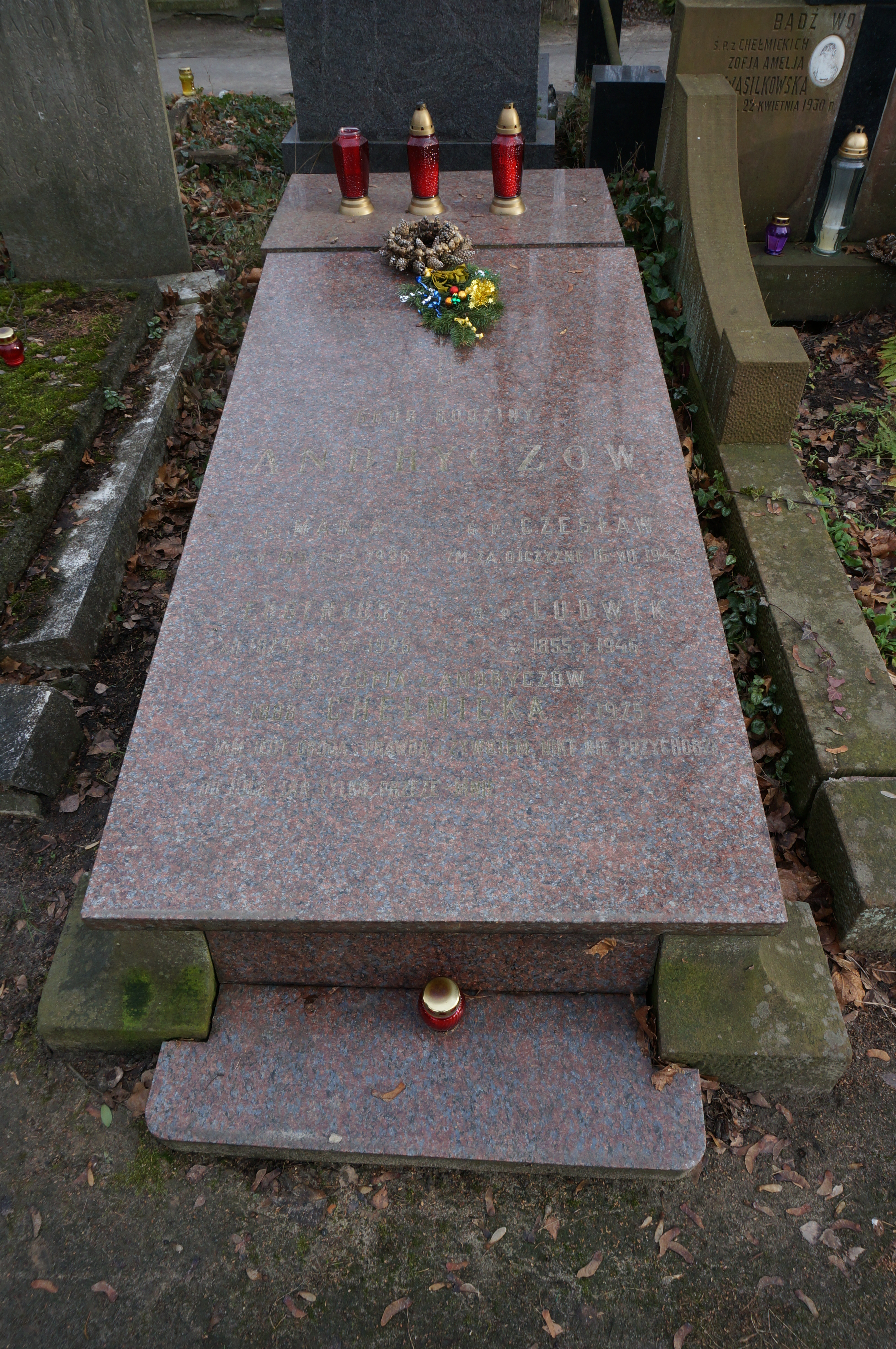 The grave of Czesław Andrycz at the Powązki Cemetery (section 113, row 2, grave 14)